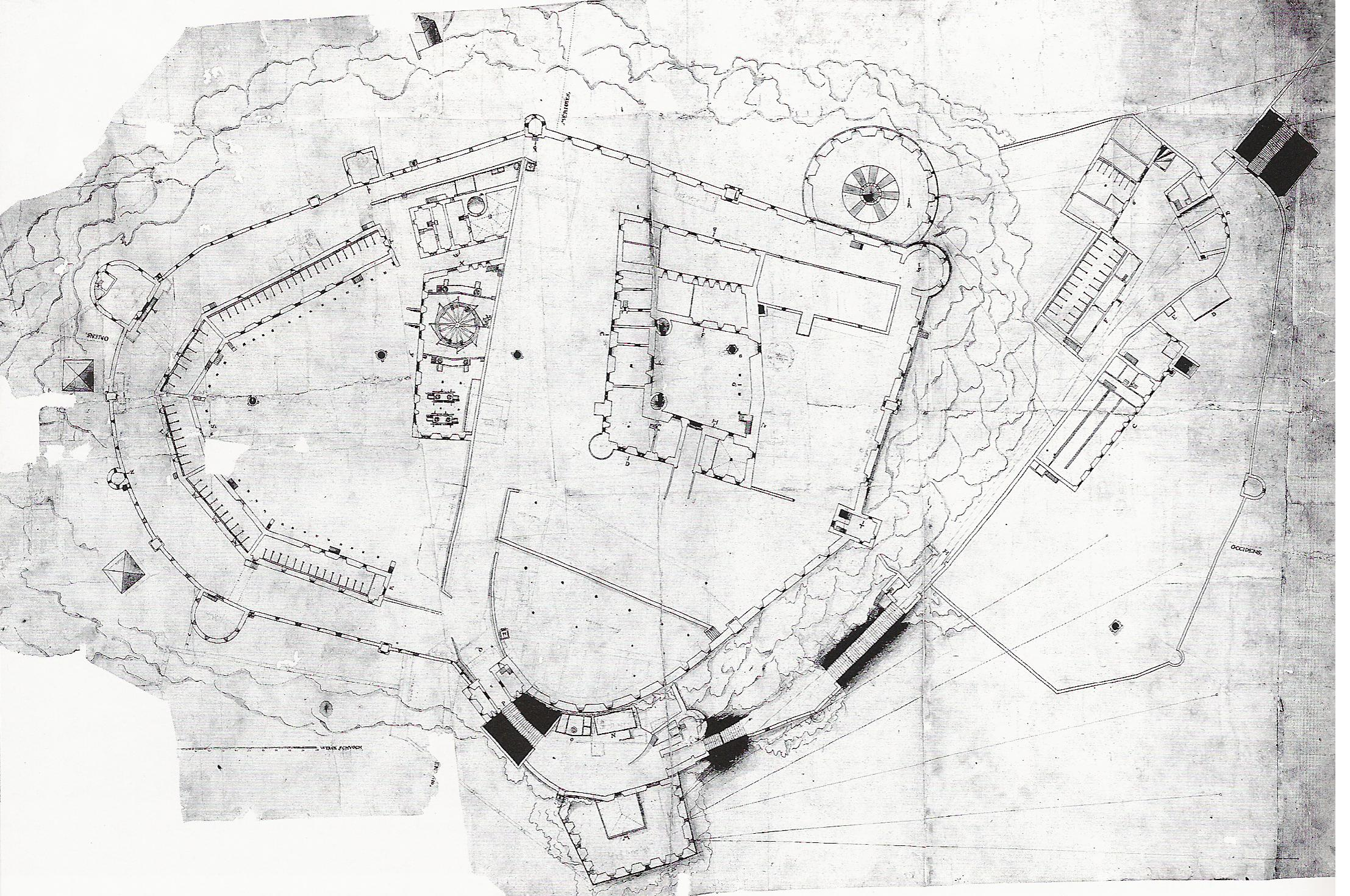 Castle Hohentwiel in southern germany, near Lake Constance.